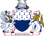 Coat of Arms of the U.S. Navy Supply Corps